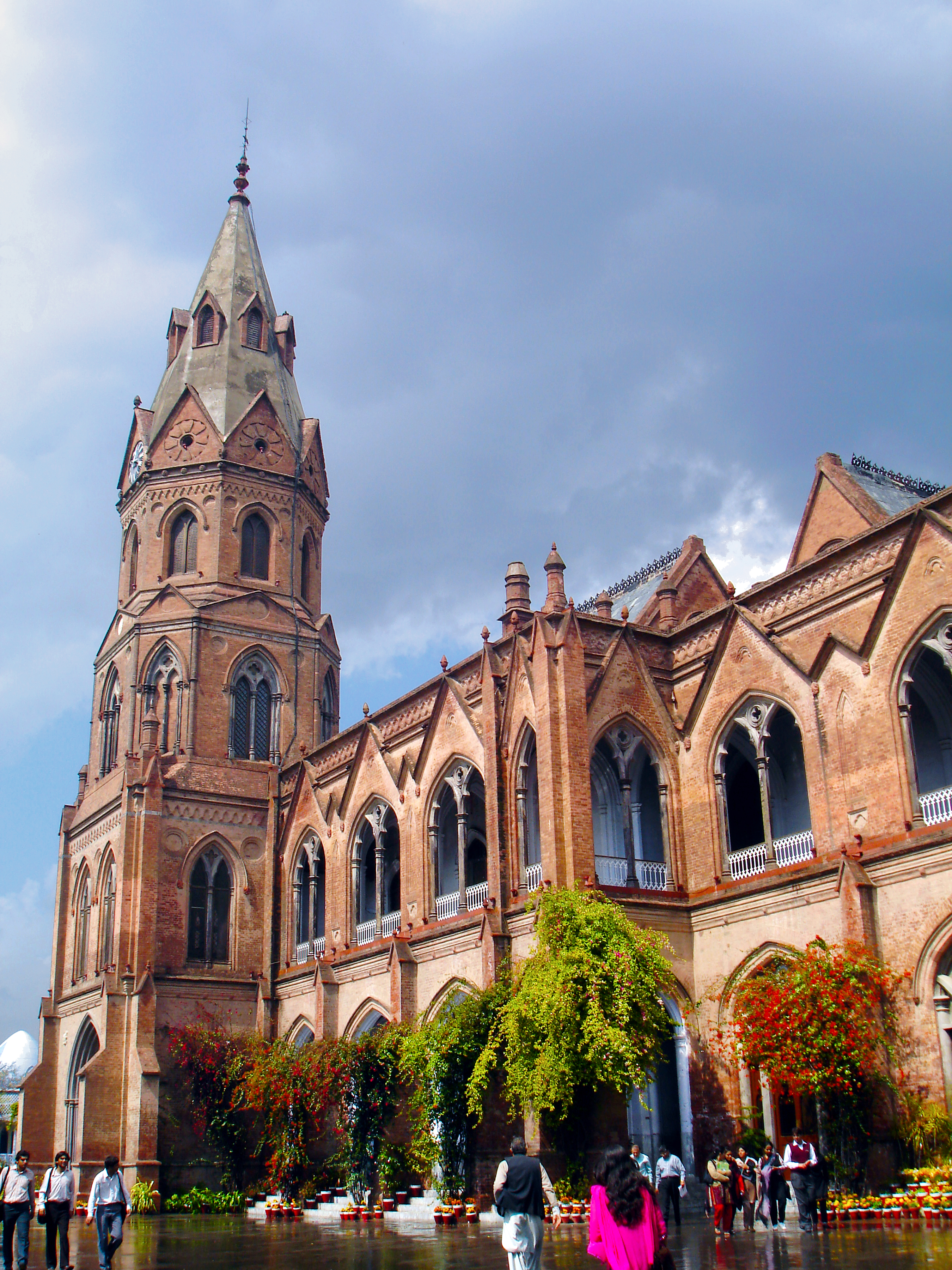 The image is that of The Government College University, Lahore (GCU) (Urdu: گورنمنٹ کالج یونیورسٹی لاہور ), which is a public university located in the downtown area of Lahore, Punjab, Pakistan. It is one of the oldest universities in Pakistan as well as one of the oldest institutions of higher learning in the Muslim world. Initially established as Government College Lahore, it was granted university status by the Government of Pakistan in 2002; the word college is retained in its title for preserving its historical roots.